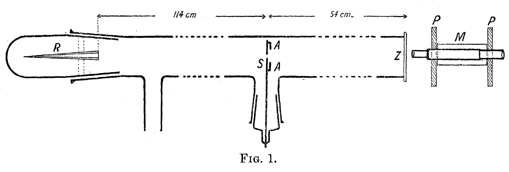 Diagram from a 1908 paper by Hans Geiger. This apparatus was used to observe the scattering of alpha particles by a metal foil.